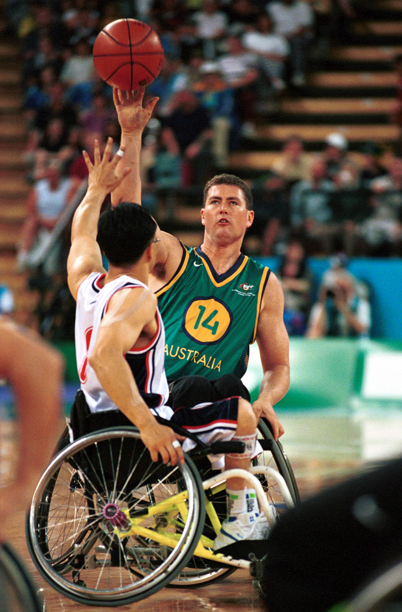 Australian wheelchair basketballer Adrian King shoots during 2000 Sydney Paralympic Games match